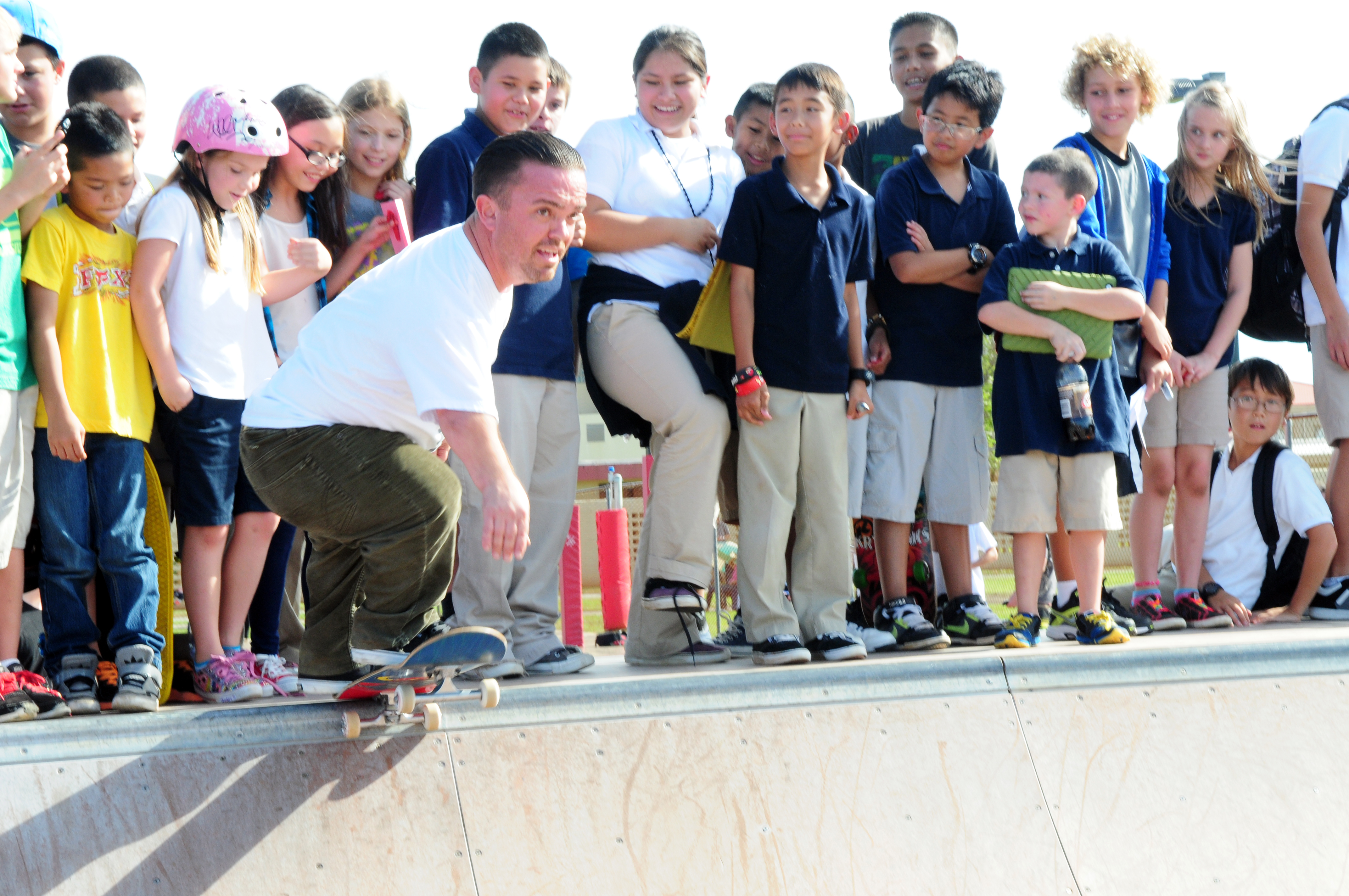 Actor Jason “Wee Man” Acuña performs a trick on the half pipe, as Team Andersen youth cheer him on at the skate park on Andersen Air Force Base, Guam, Jan. 9. Wee Man signed autographs, raffled prizes, conducted a skateboard demonstration and previewed his newest movie for Airmen and family members at Andersen as part of his Wee Man Salutes the Service tour.